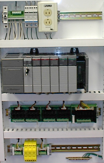 Made by me of a constructed panel with my digital camera